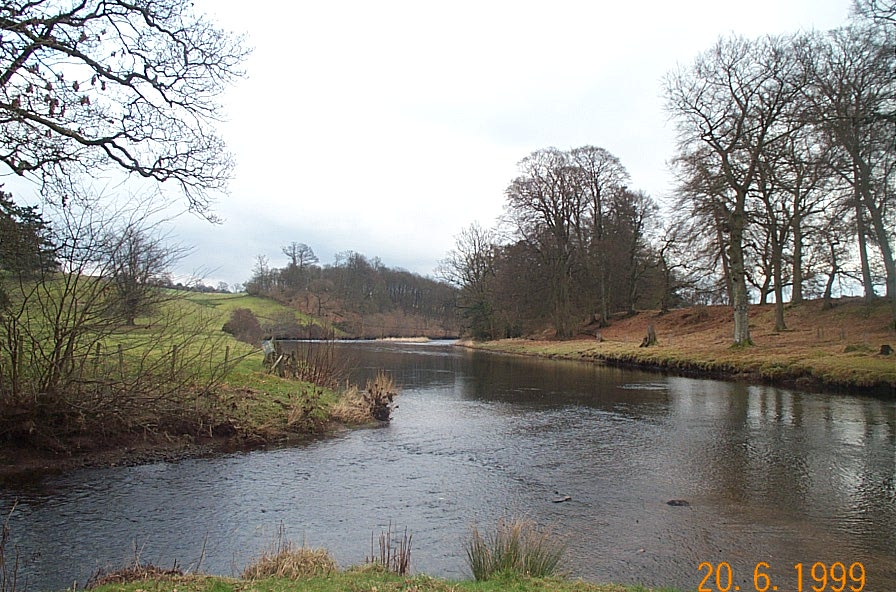 Castle Pool, 2 km downstream from Doune. River Teith, Scotland